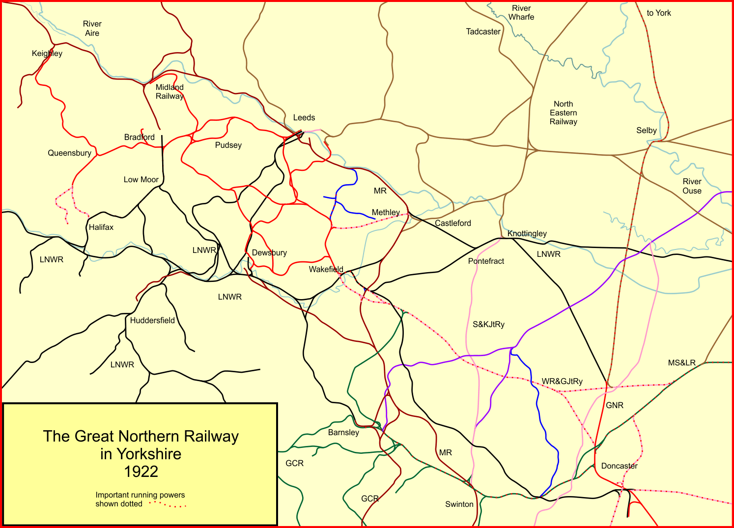 System map of the Great Northern Railway in Yorkshire, England, in 1922